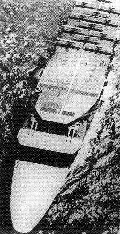 Forward overhead view of the Imperial Japanese Navy aircraft carrier Akagi soon after two twin 8-inch turrets were installed on the carrier's middle flight deck in 1929.